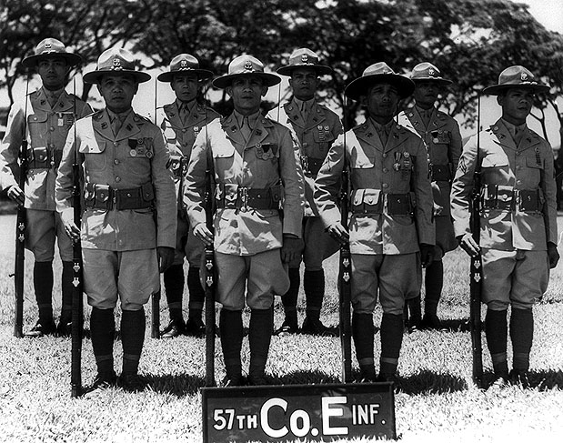 Chief of Infantry Combat Team, 57th Infantry, Co. E, Philippine Islands